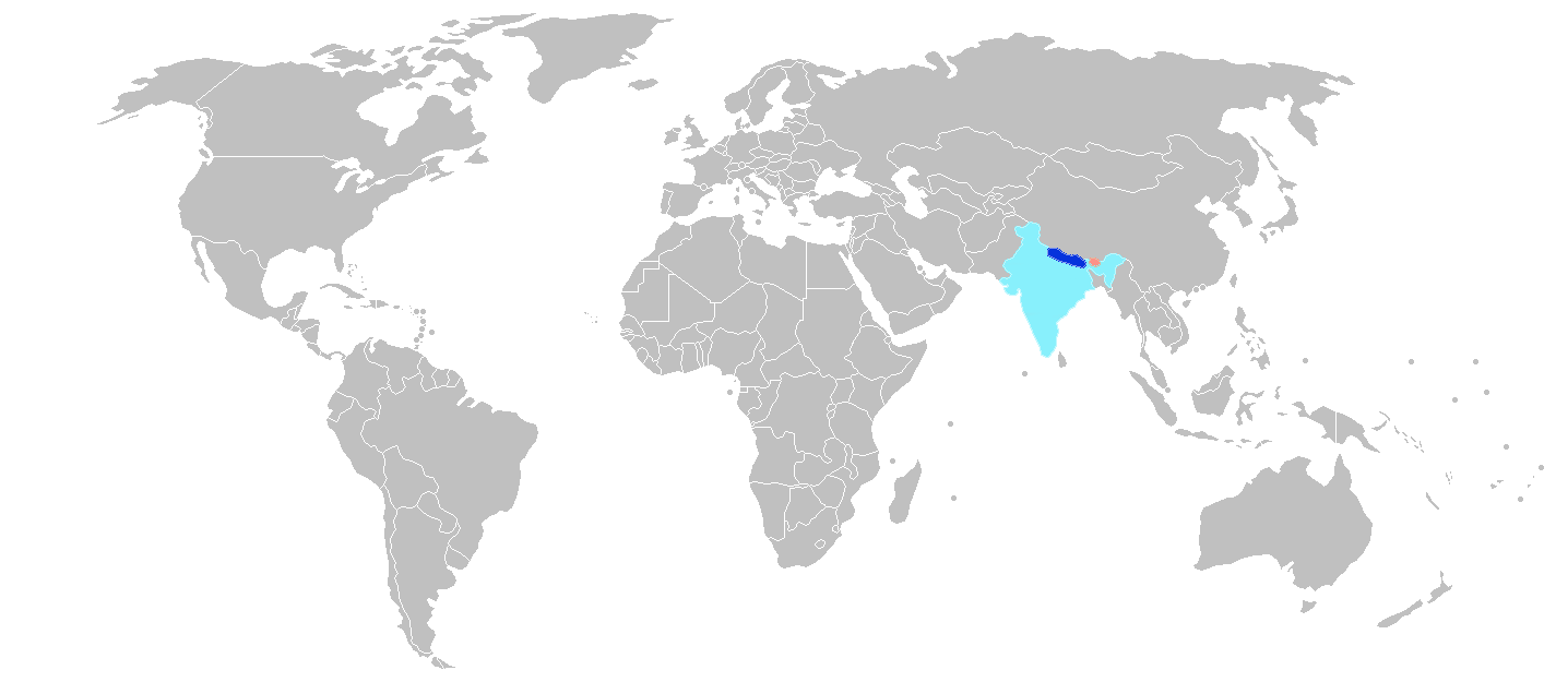 World map with significant Nepali language speakers (Dark Blue=Main official language, light blue=one of the official languages, red=places with significant population or greater than 20% but without official recognition